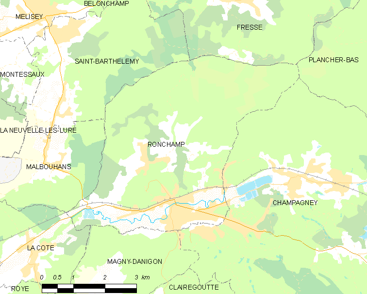 Map of French municipality